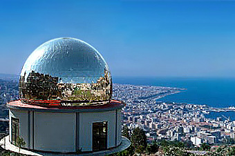 Planetarium "Pythagoras", Reggio Calabria